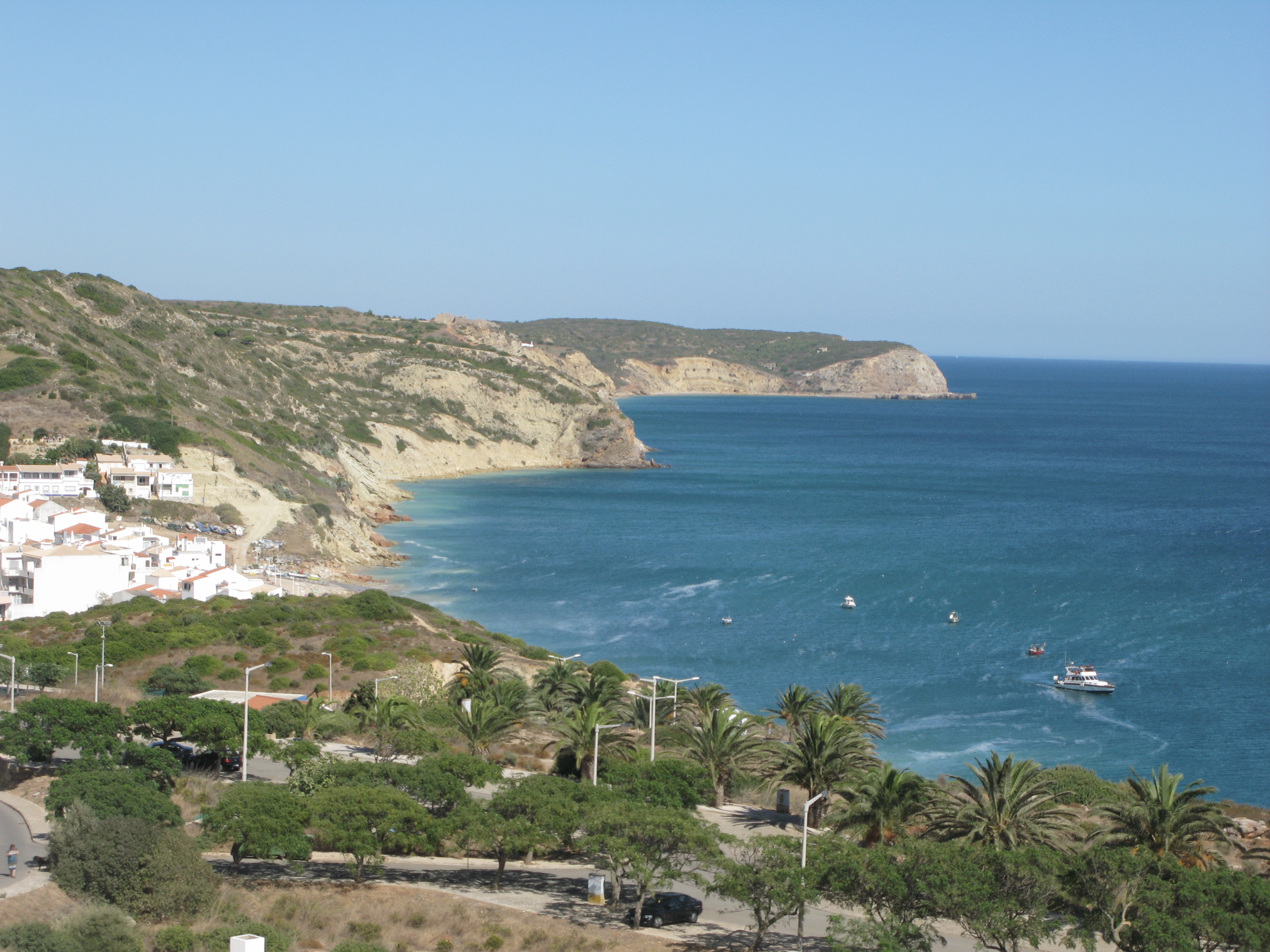 Salema Bay, Algarve, Portugal